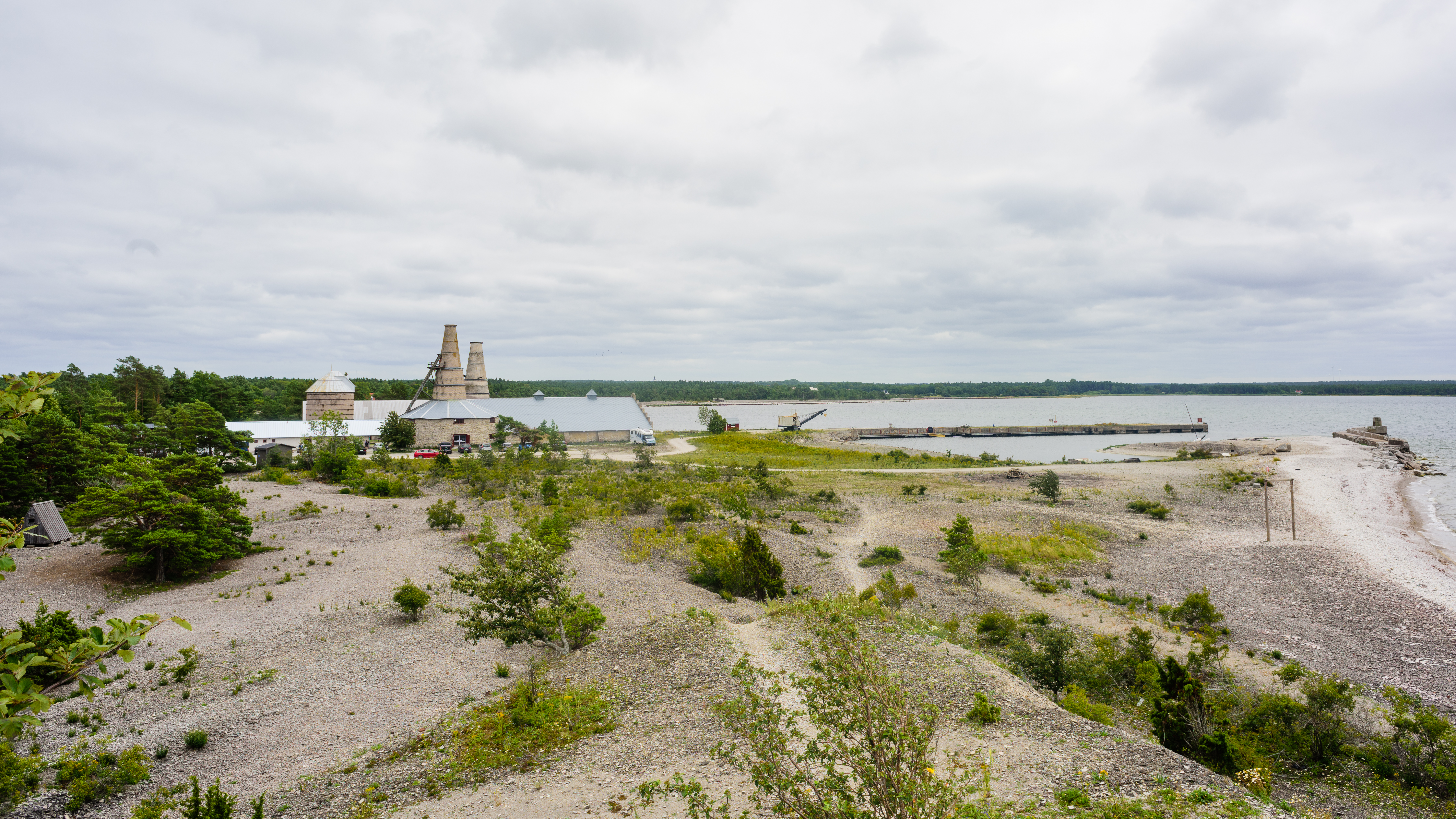 The industrial heritage site and lime stone quarry museum at Bläse, Gotland